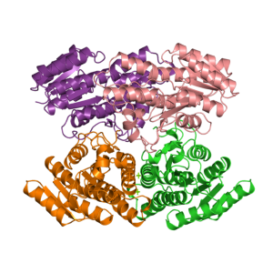 CRYSTAL STRUCTURE OF MESO-2,3-BUTANEDIOL DEHYDROGENASE PDB 1GEG